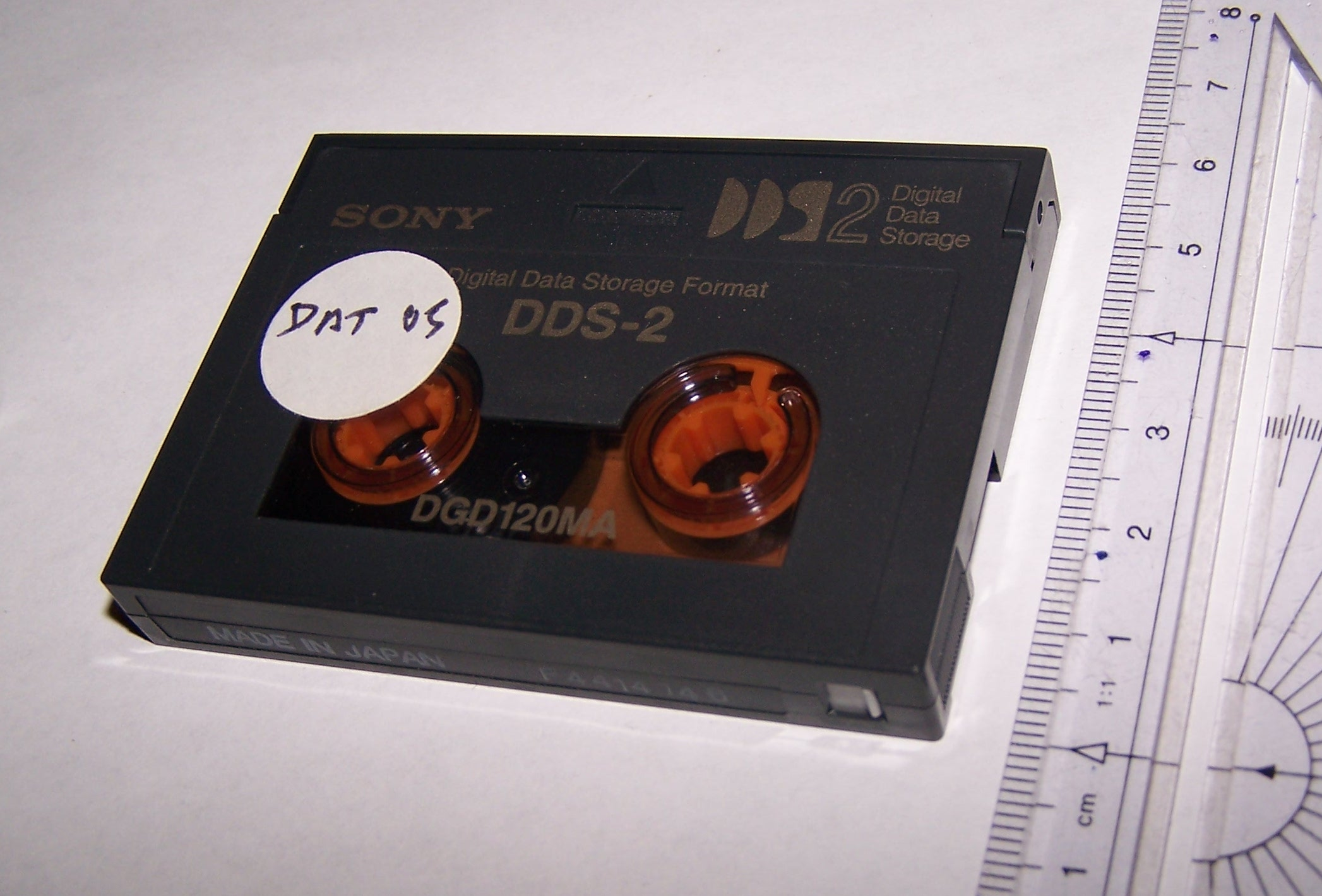 A DDS-2 computer data storage tape cassette, shown from an angle, with a ruler for scale